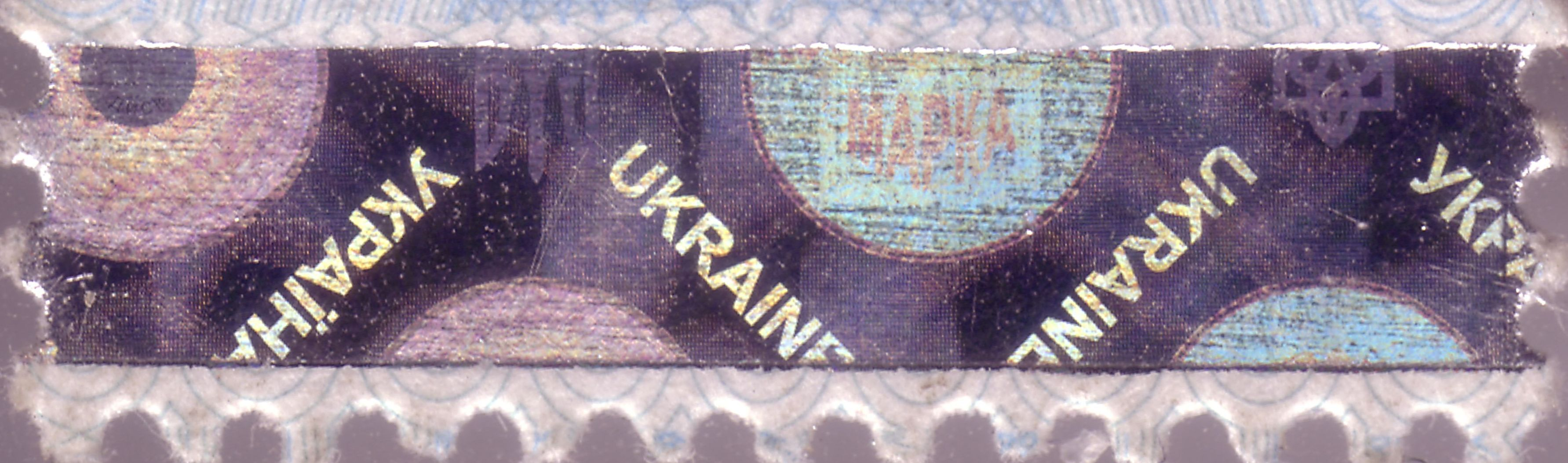 Gologram Excise Stamp of Ukraine, 1997?